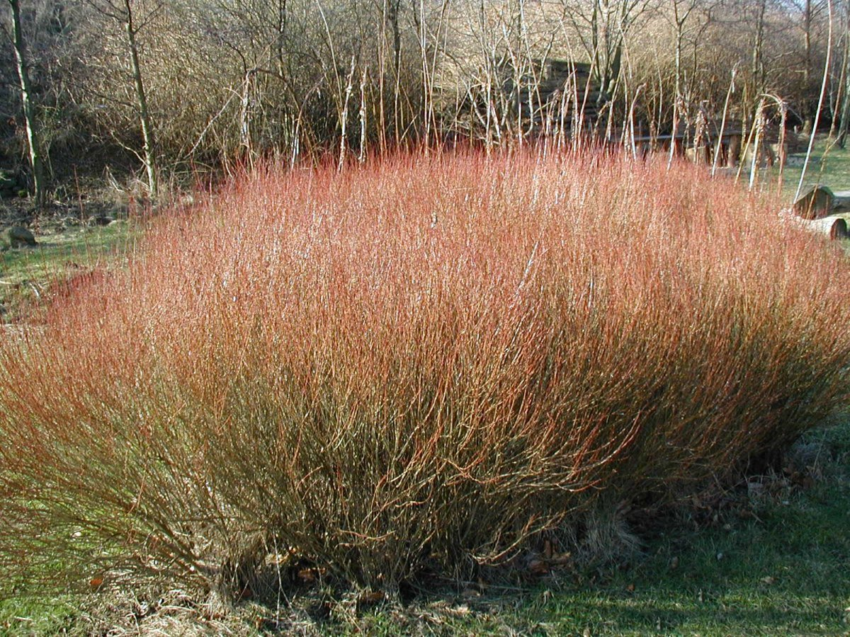 Salix purpurea: Habit. Photo: Sten Porse Removed watermark read: Sten Porse 28.2.2003